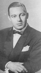 Alfredo Malerba- Músico